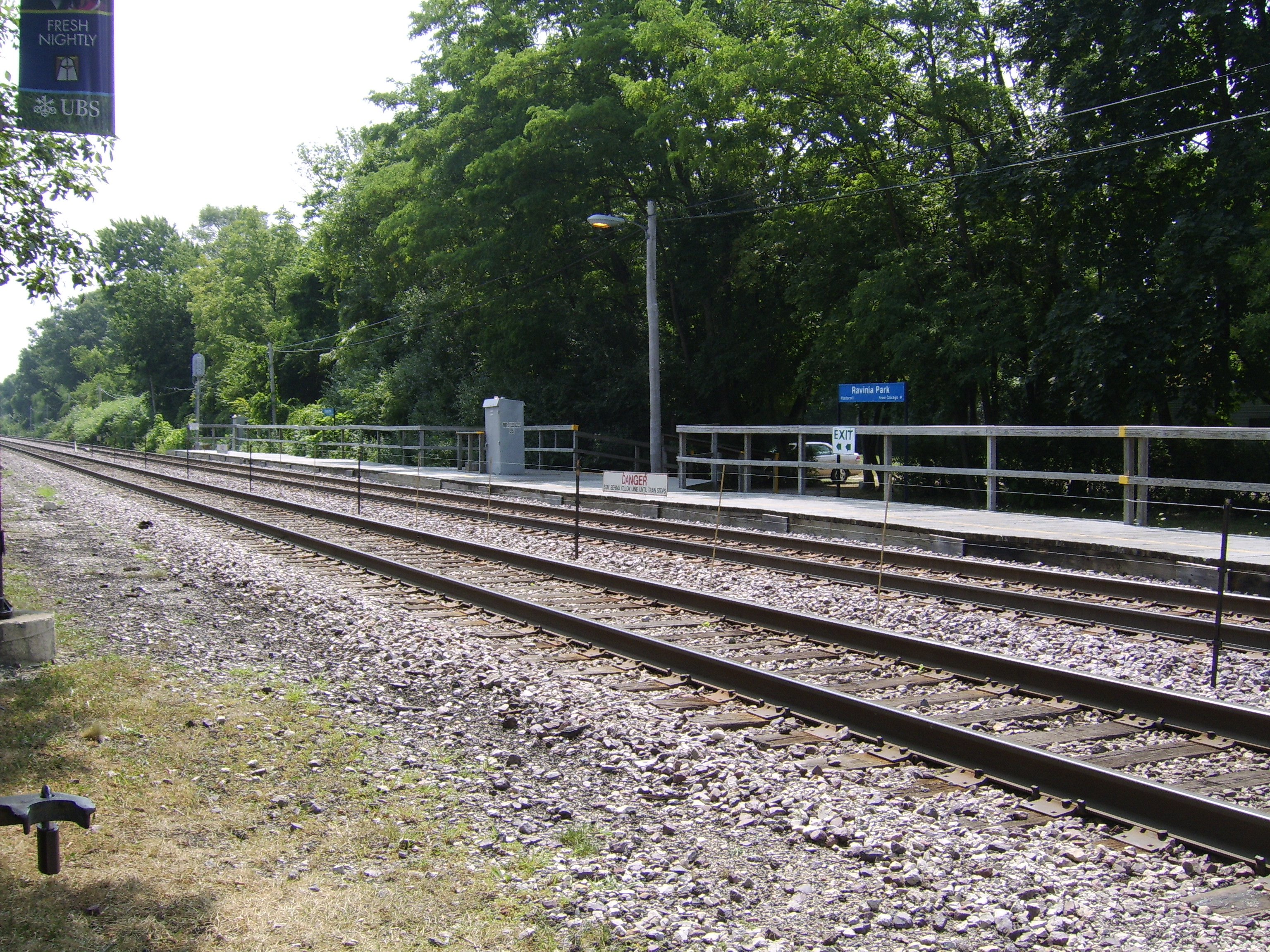 Metra Ravinia Park Station, Highland Park, Illinois